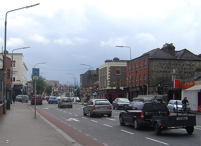 Photograph of Leonard's Corner and Upper Clanbrassil Street, Dublin, Ireland, taken by me July 2008.